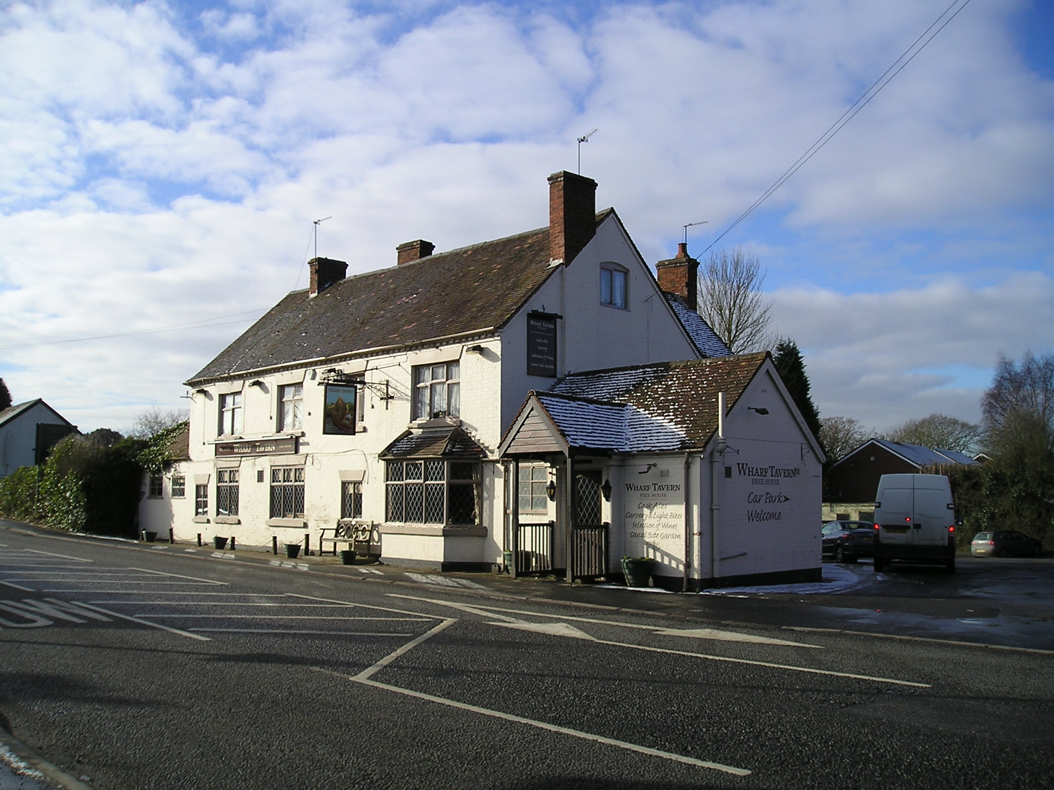 The Wharf Tavern Pub, Hockley Heath, Solihull Stratford Road, Hockley Heath, Solihull, B94 6QT on the Stratford upon Avon Canal Keywords: Pub, canal, river, riverside pub, canalside, canal side pub, canalside pub, canal pub, canal inn, canalside inn, waterside pub, food, beer, wine, waterway pub